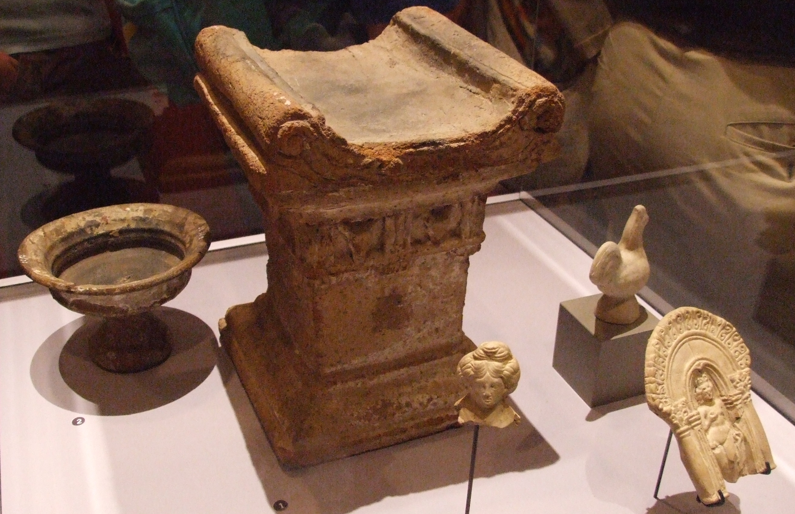 incense burner, altar, nutrix, cock, venus: roman religiostity